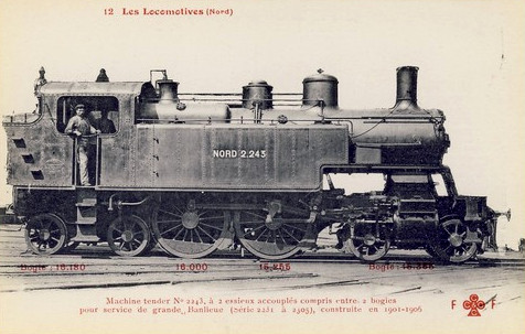 Nord 222 2-243